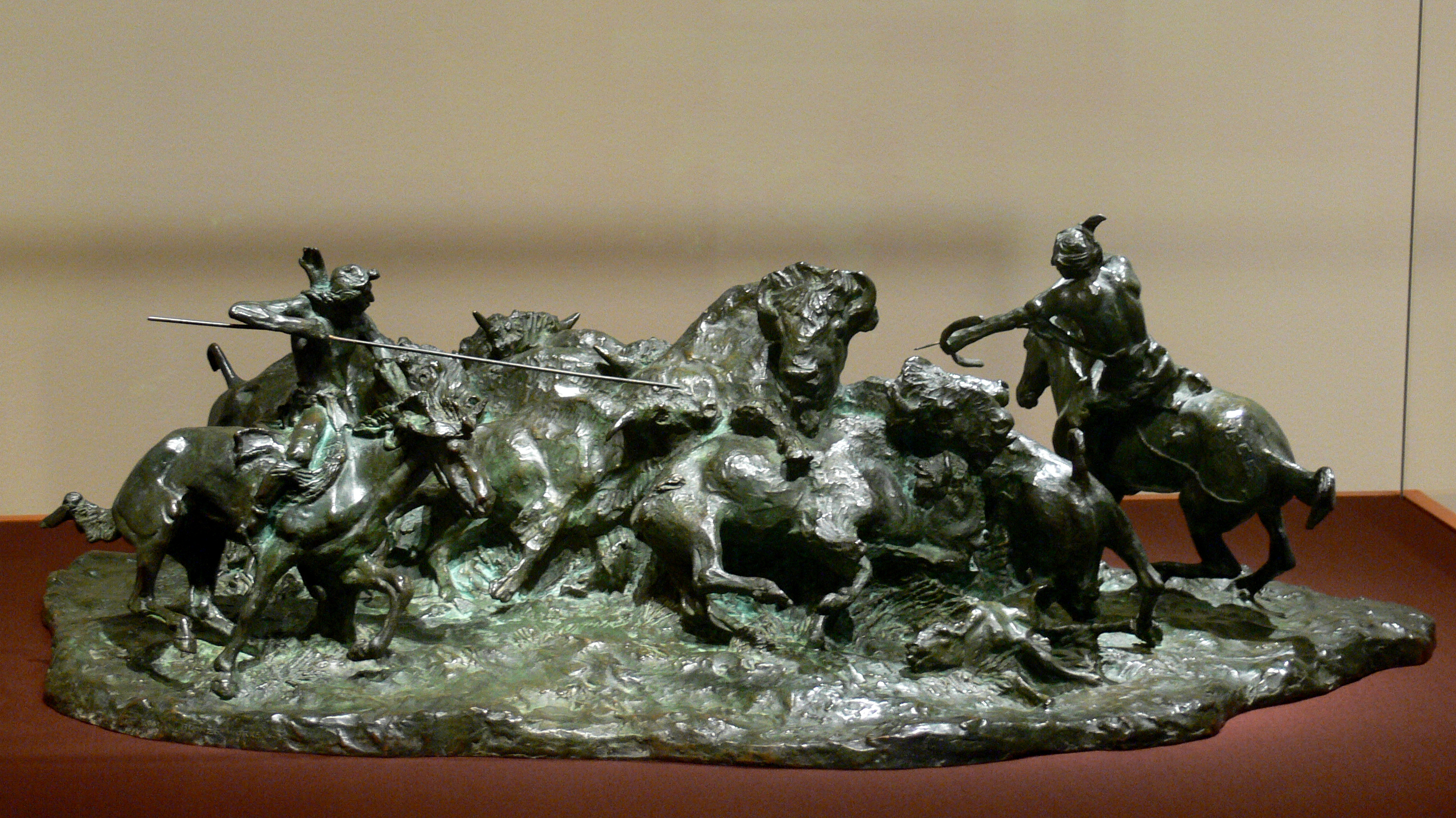 Meat for Wild Men, modeled 1924, cast by Roman Bronze Works (1926-1927), Amon Carter Museum, Fort Worth (Provenance: Mrs. Nancy Russell)